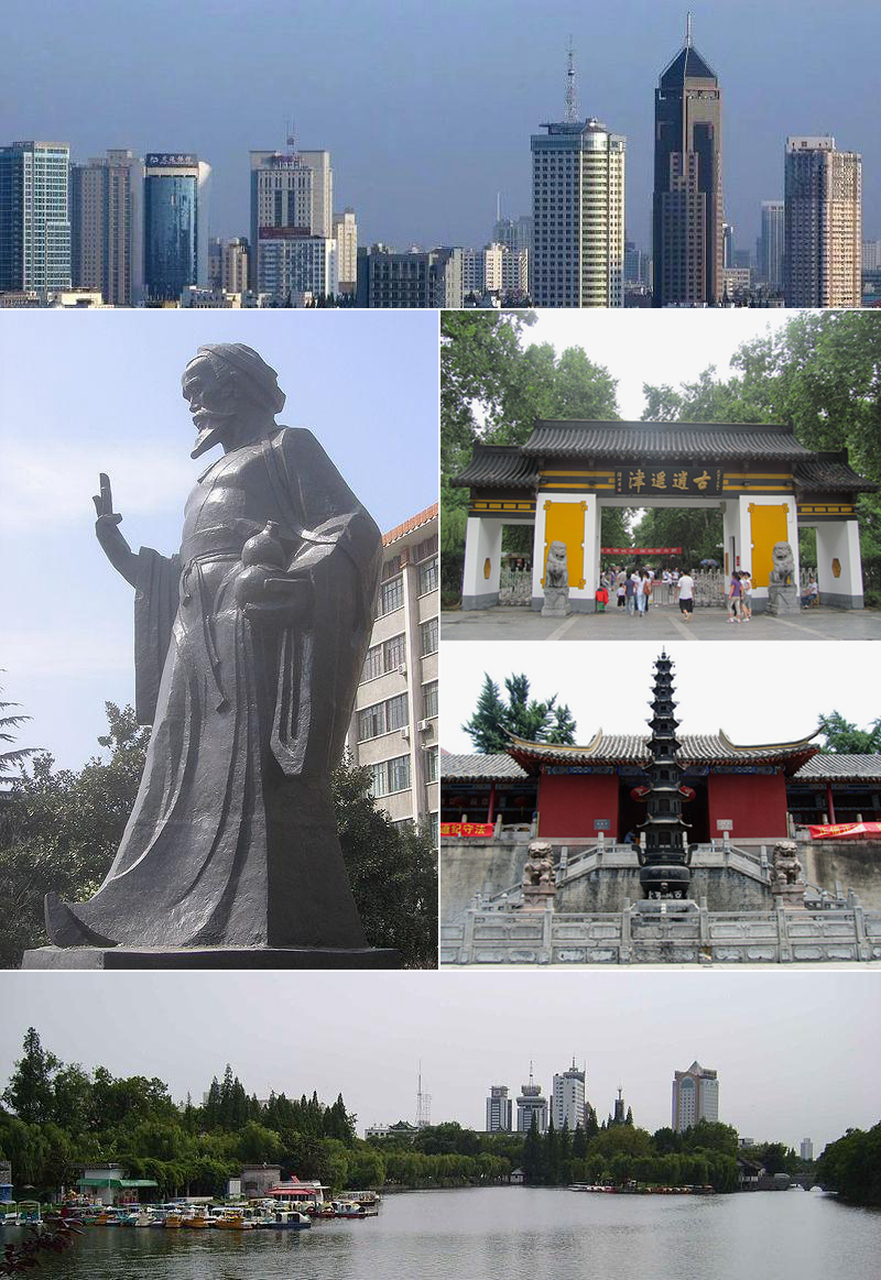 Montage of Hefei. Clockwise from top: Hefei skyline, Xiao Yao Jin, Mingjiao Temple, Bao Gong Ci, Statue of Hua Tuo.